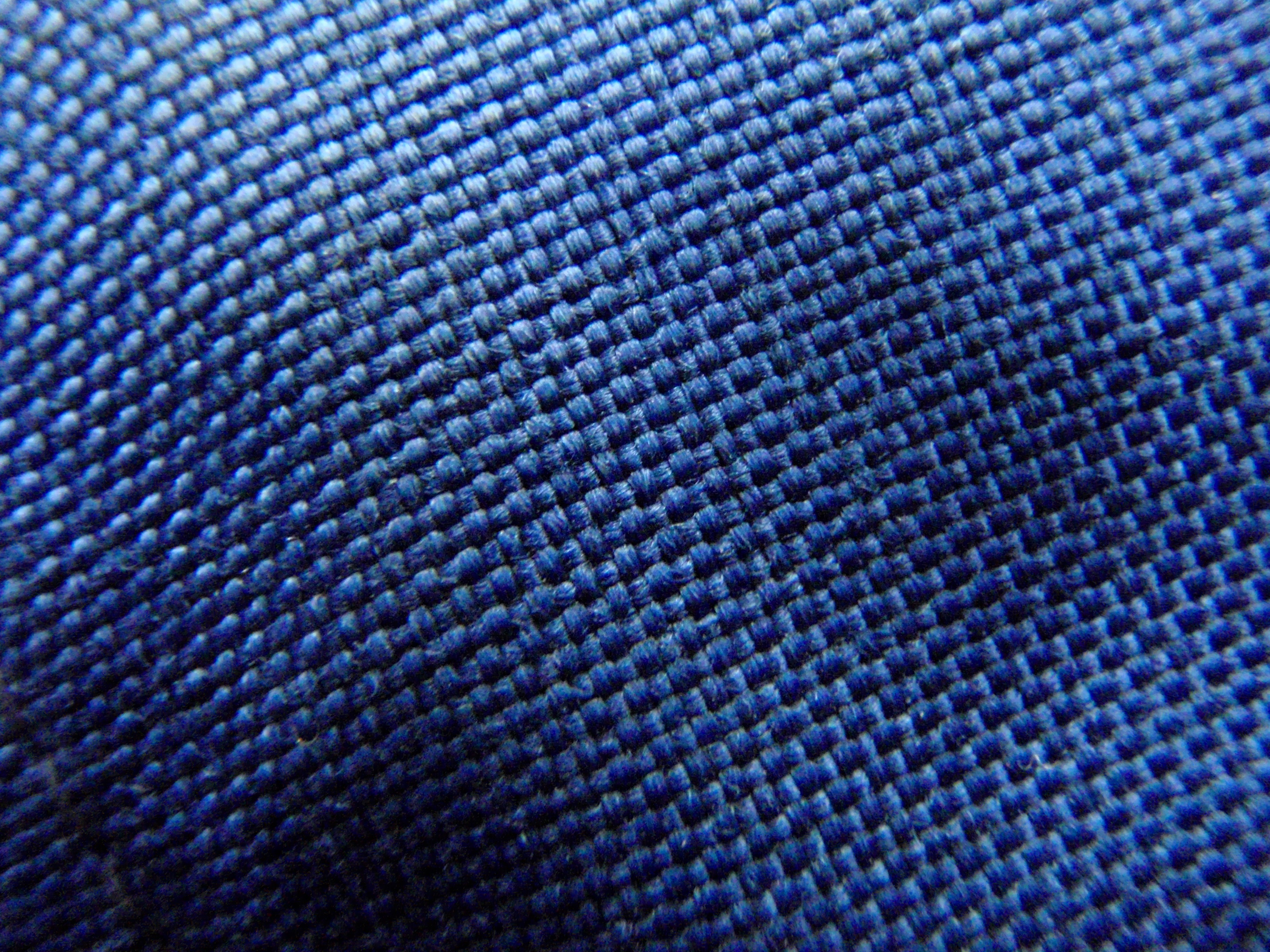 Closeup of blue Cordura(TM) fabric